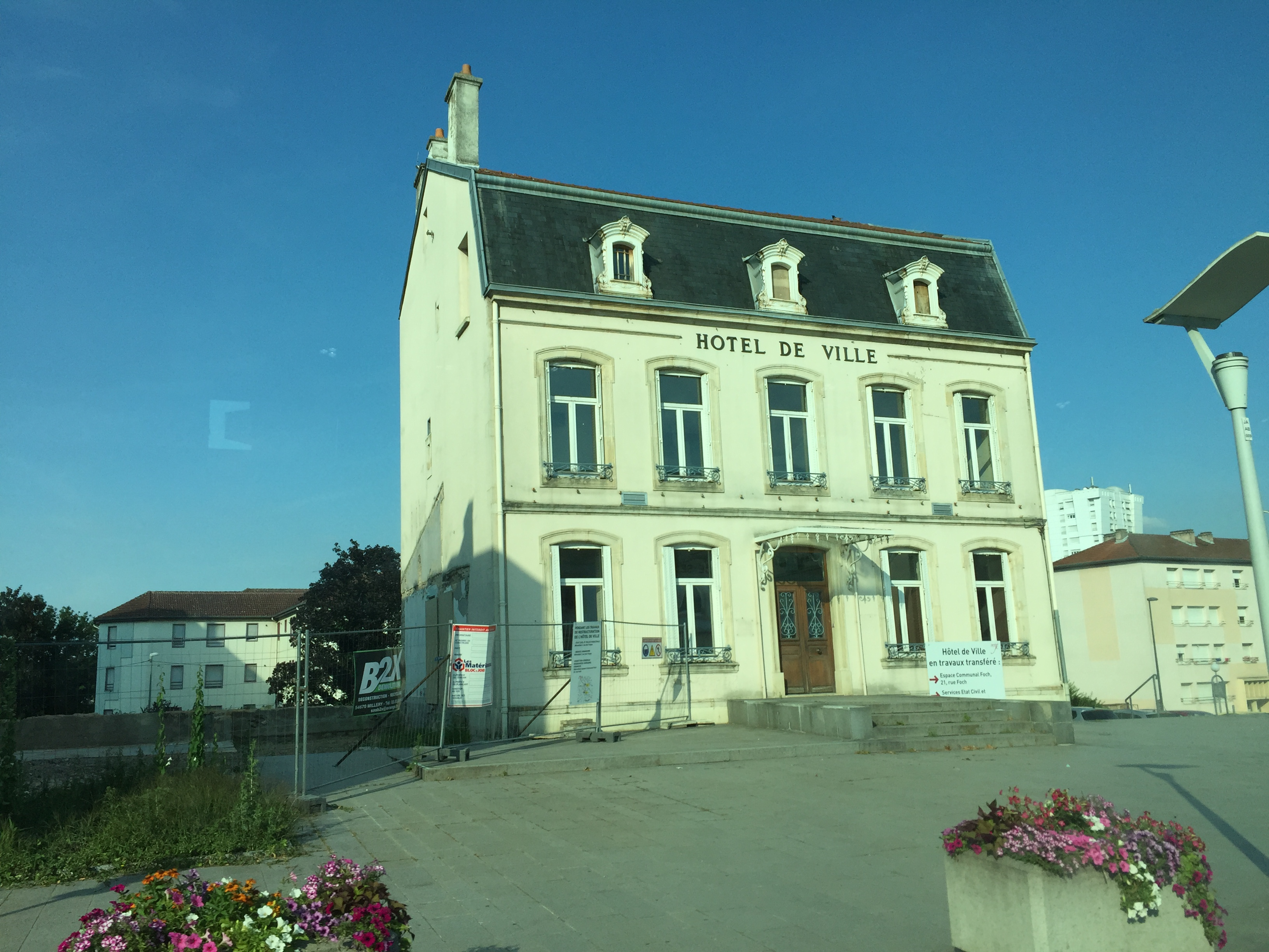 City hall of Jarville-la-Malgrange, France in 2018